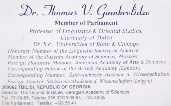 A photo of Thomas V. Gamkrelidze's business card.